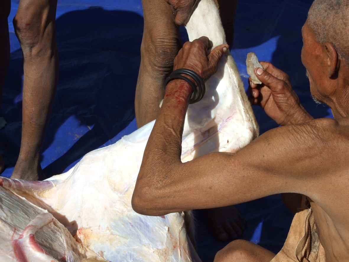 Archaeology